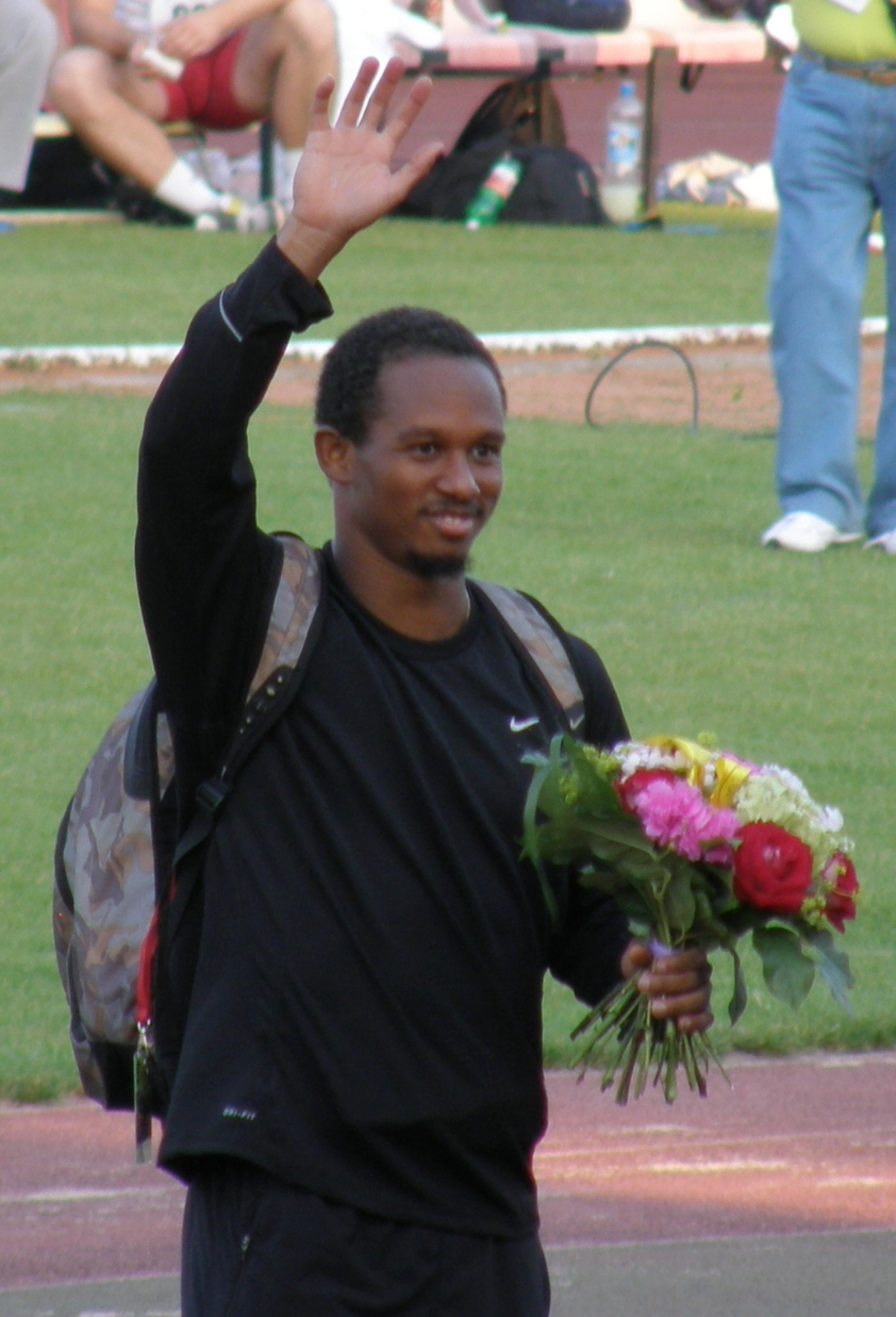 Michael Frater; 2010 Janusz Kusocinski Memorial in Warsaw (Poland)